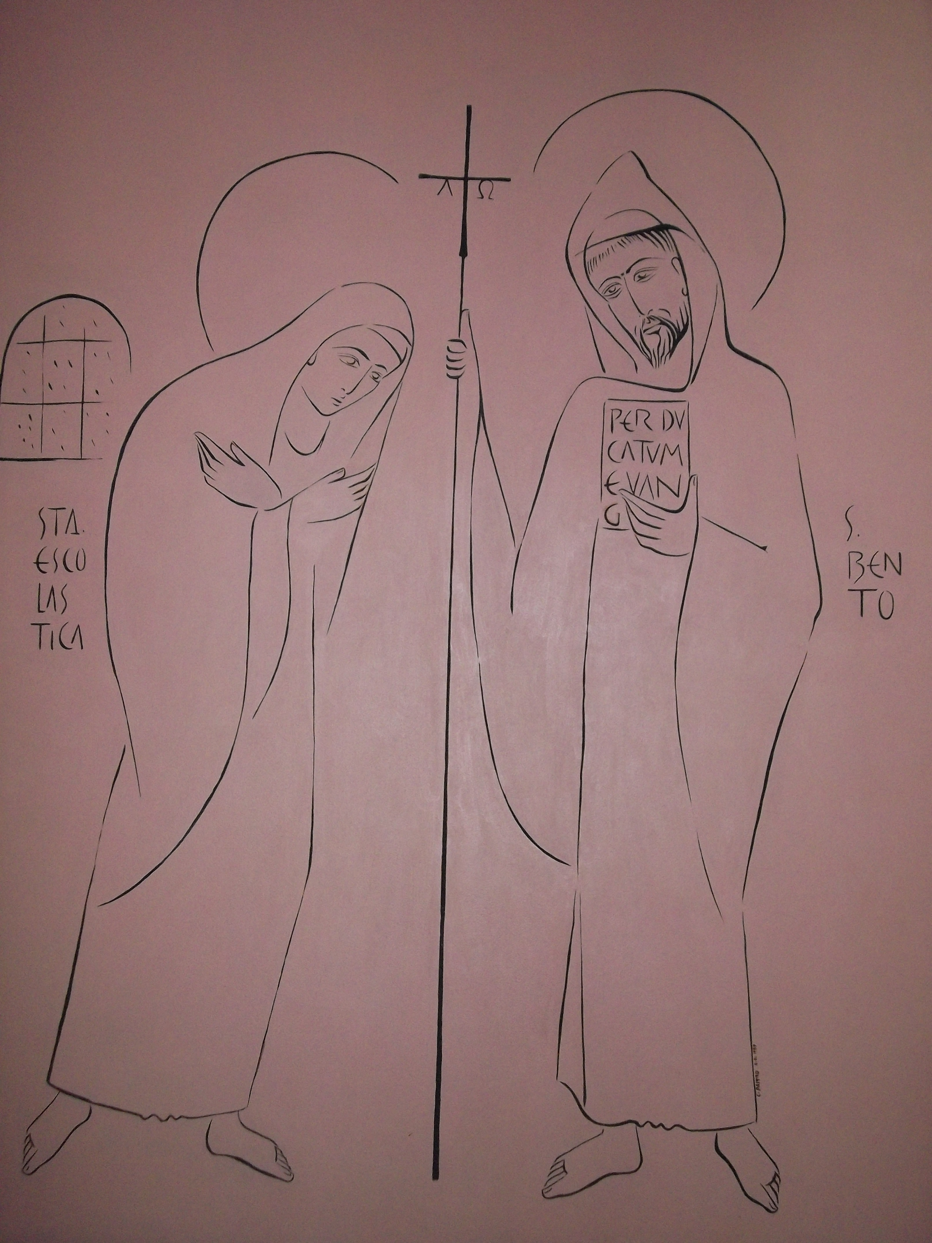 Virgin's Monastery (benedictine nuns), Petrópolis, Rio de Janeiro State, Brazil : Saints Benedict and Scholastica; inscription "Per ducatum evangelii" Regula Benedicti, Prol. 21)